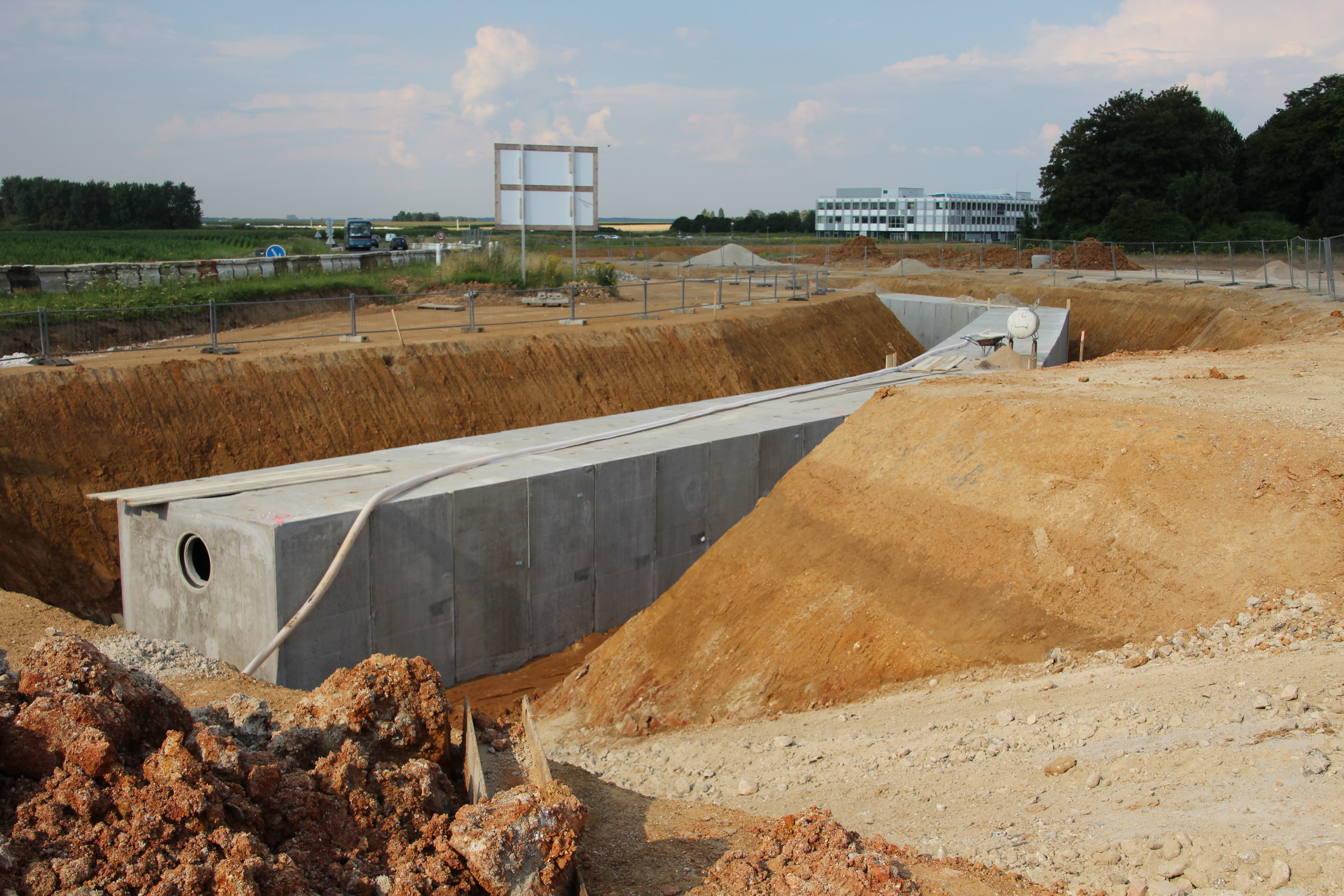 Picture of the construction of the bus lane of 91-06 Express, a bus line under construction on the Saclay plateau in the town of Gif-sur-Yvette, France. Object location48° 42′ 39.99″ N, 2° 09′ 44.55″ E